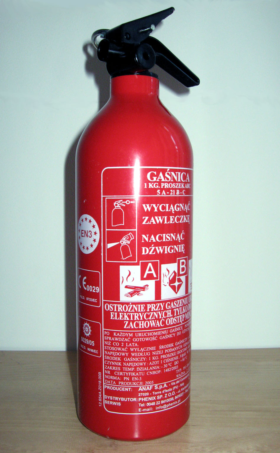 Fire extinguisher